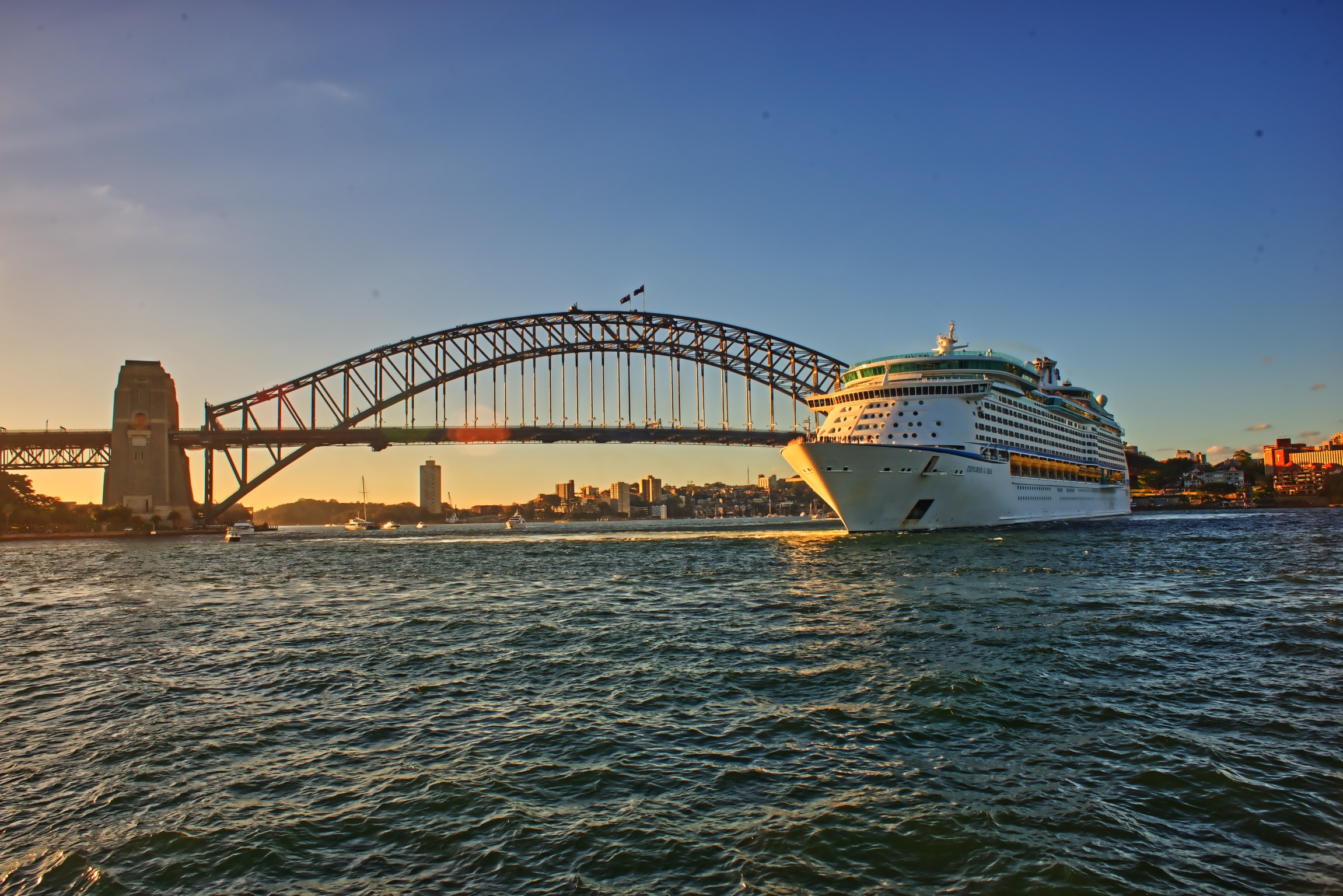 A huge cruise ship visiting Sydney Bridge Harbour